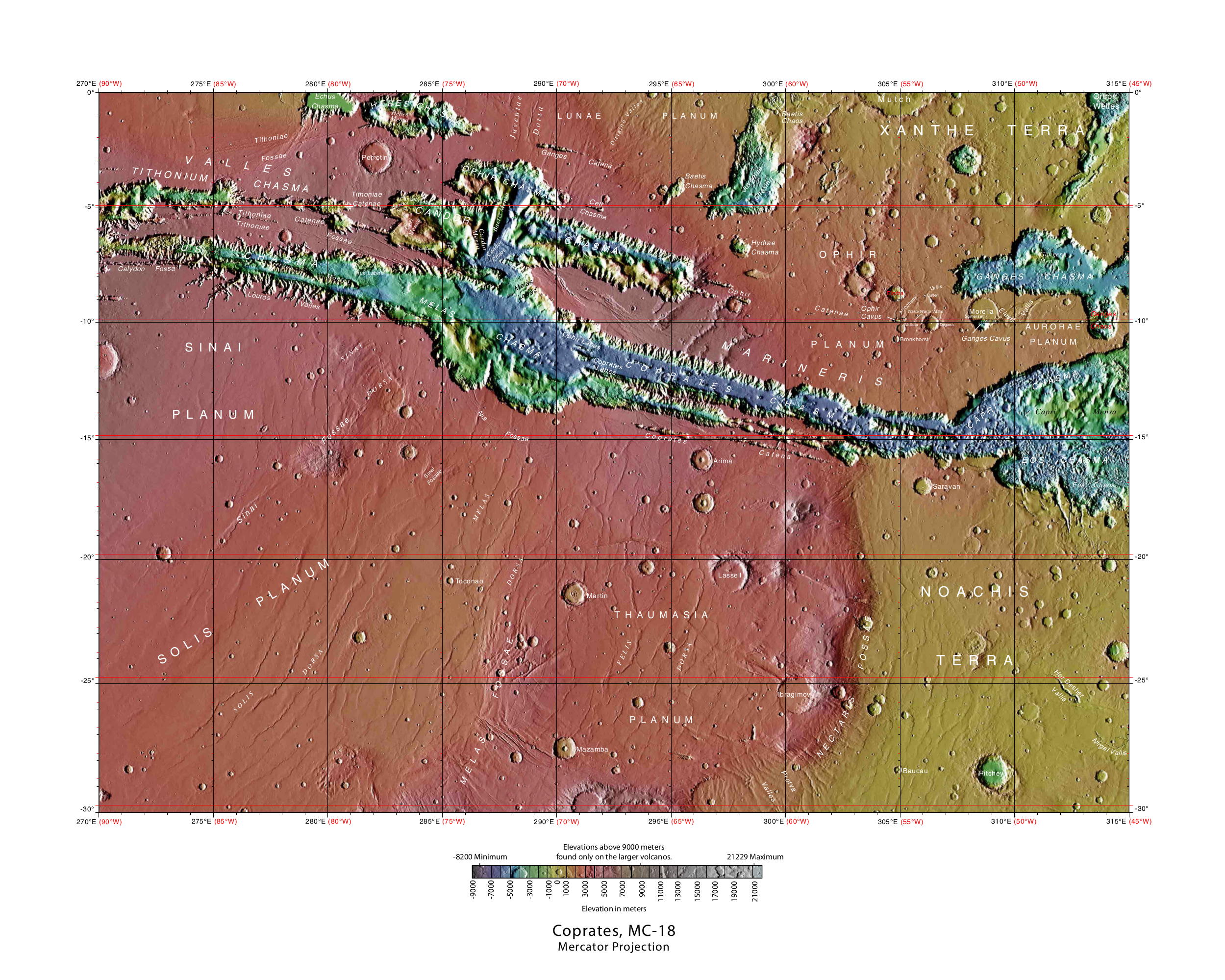 MOLA Topographic Map of Coprates Quadrangle (MC-18) on the planet Mars. NOTE: Converted the original PDF file to a PNG File (via GIMP v2.8.4 program) - and uploaded to Wikimedia Commons.